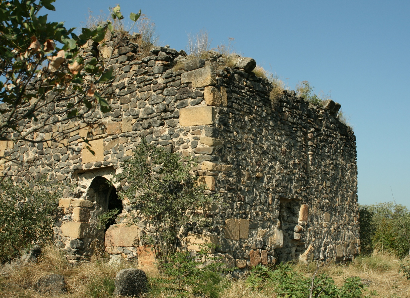 Ruined church in Samshvilde east of the Sioni cathedral ruins, Georgia